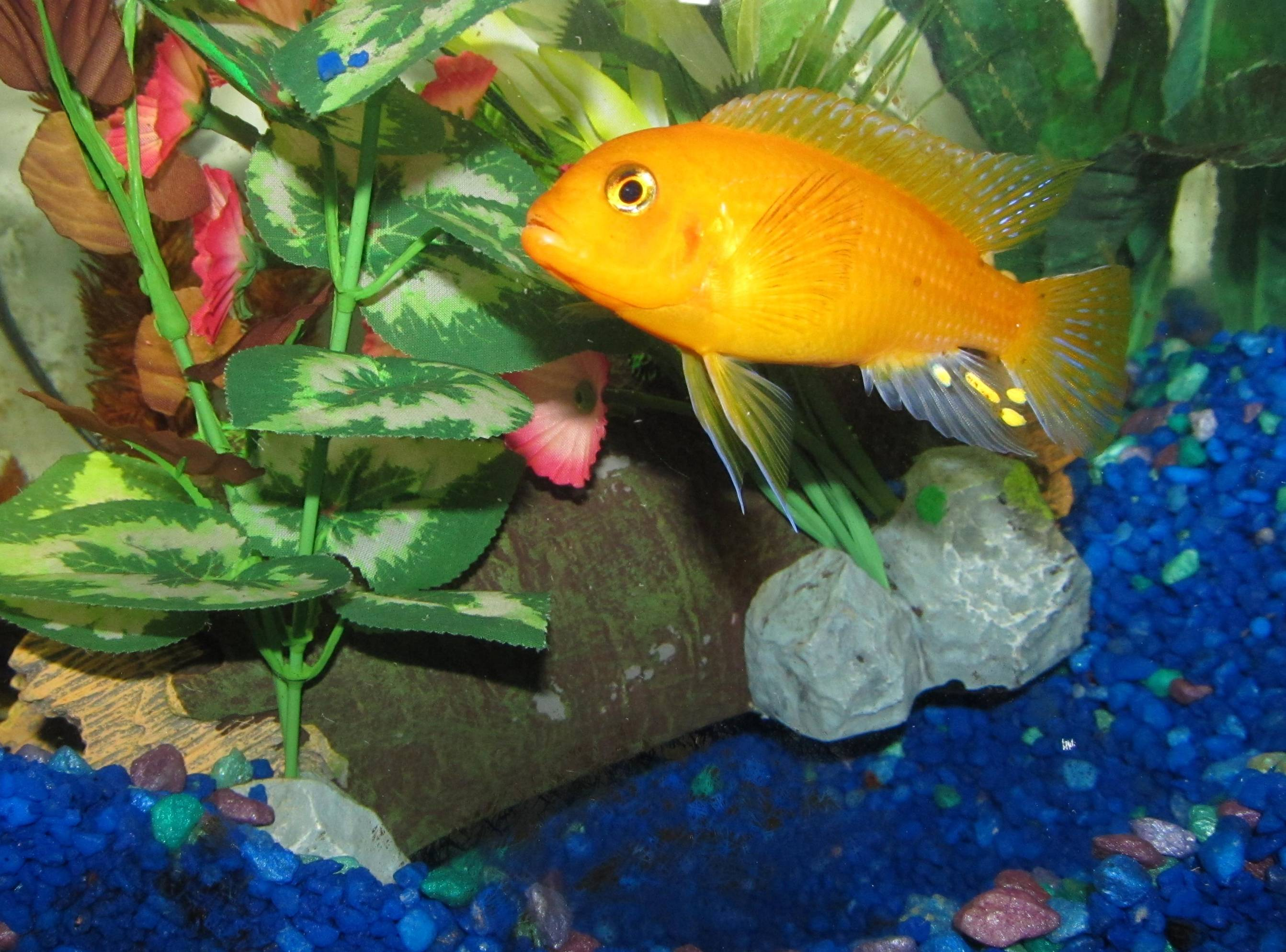 A male red zebra cichlid, Maylandia estherae.